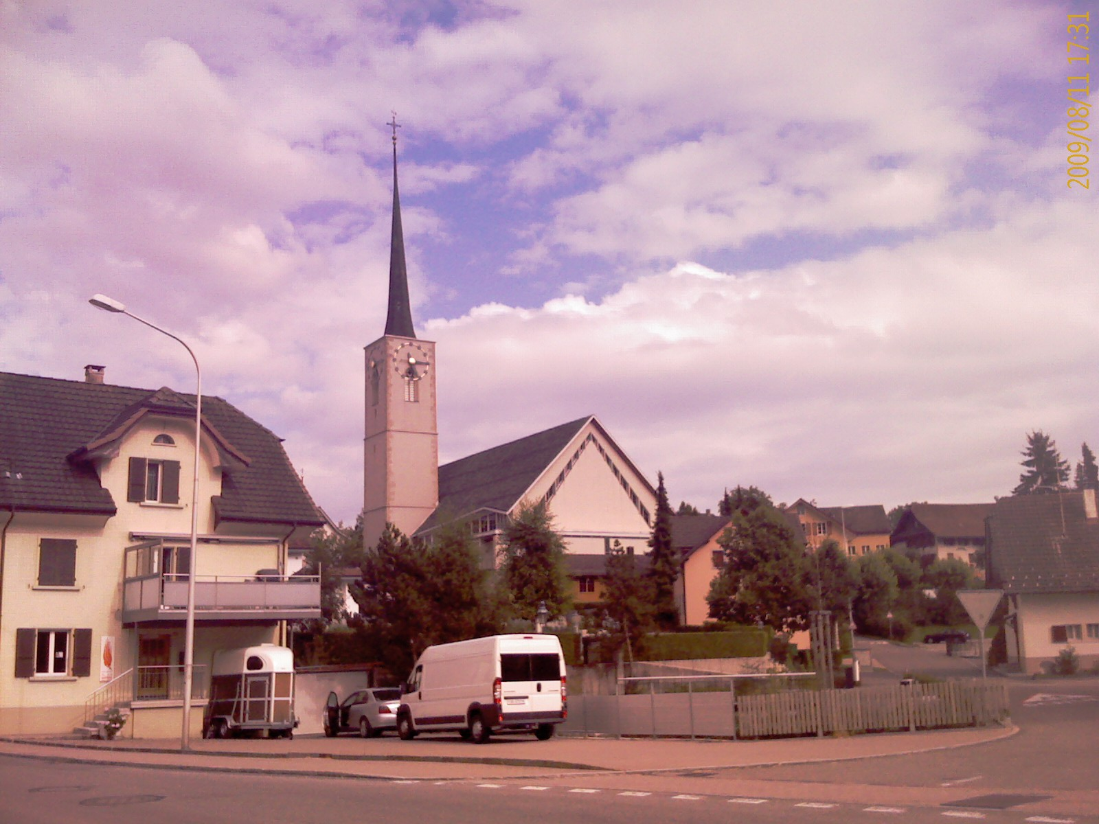 Church of Rickenbach, canton of Luzern, SwitzerlandEsperanto: Preĝejo de Rickenbach, Kantono Lucerno, Svislando